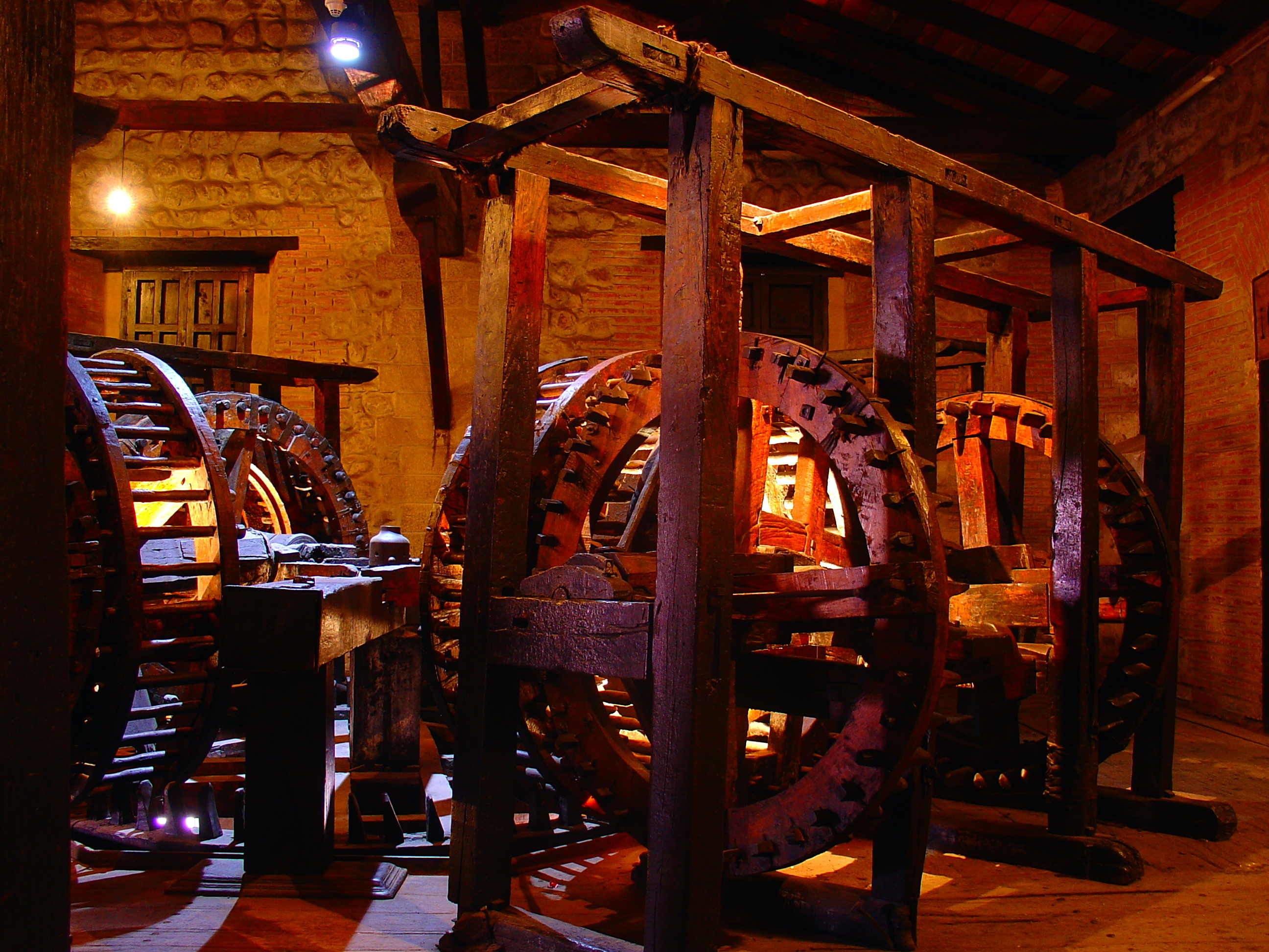 Please, have this description accessible to all by translating it in different languages.